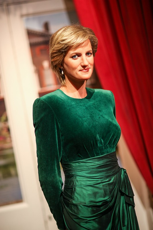 Diana, Princess of Wales' wax statue at Madame Tussauds, London